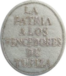 Tupiza decoration patch